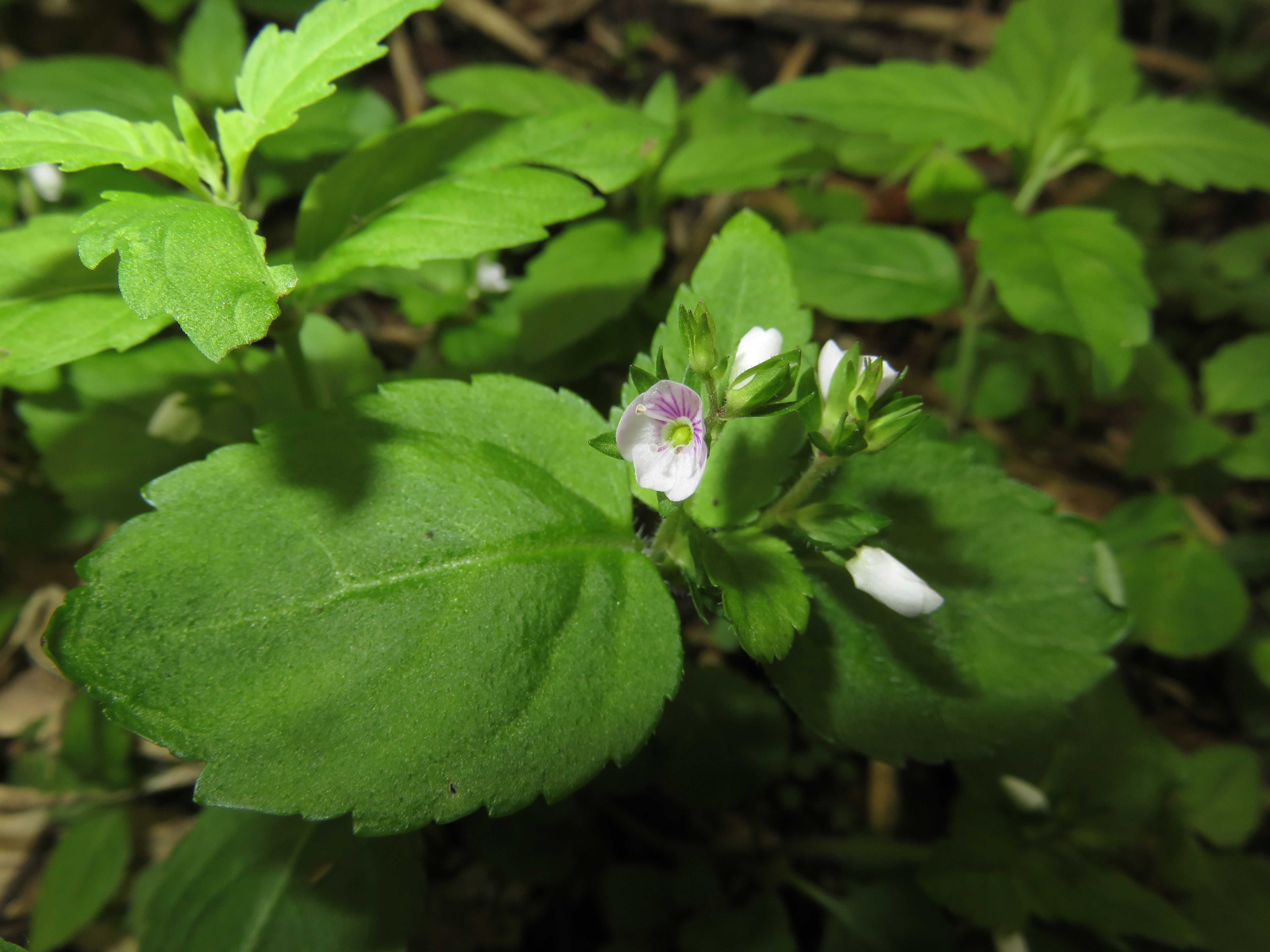 Veronica japonensis, Oze, Fukushima pref., Japan